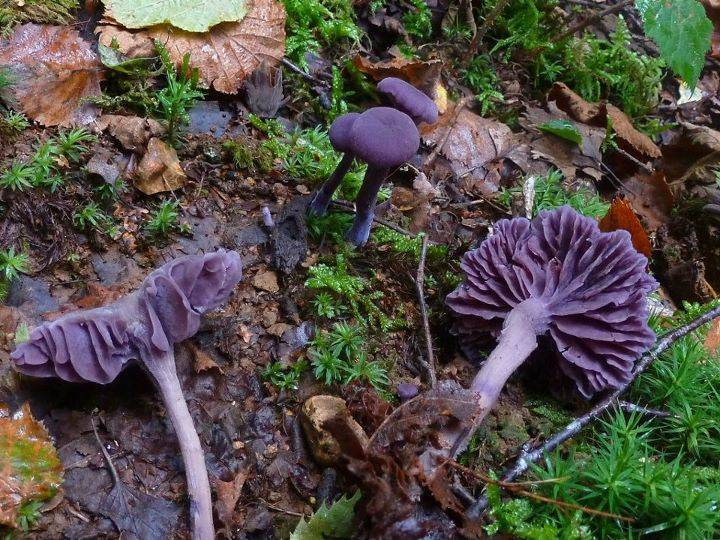 Laccaria amethystina Cooke Image location: Knighton Heath Woods. Dorset. United Kingdom. Hard to spot despite color. Very numerous certainly the most common species found on that day. Oak, sweet chestnut and Hazel predominantly with occasional pine and Birch. Recognized by sight For more information about this, see the observation page at Mushroom Observer.